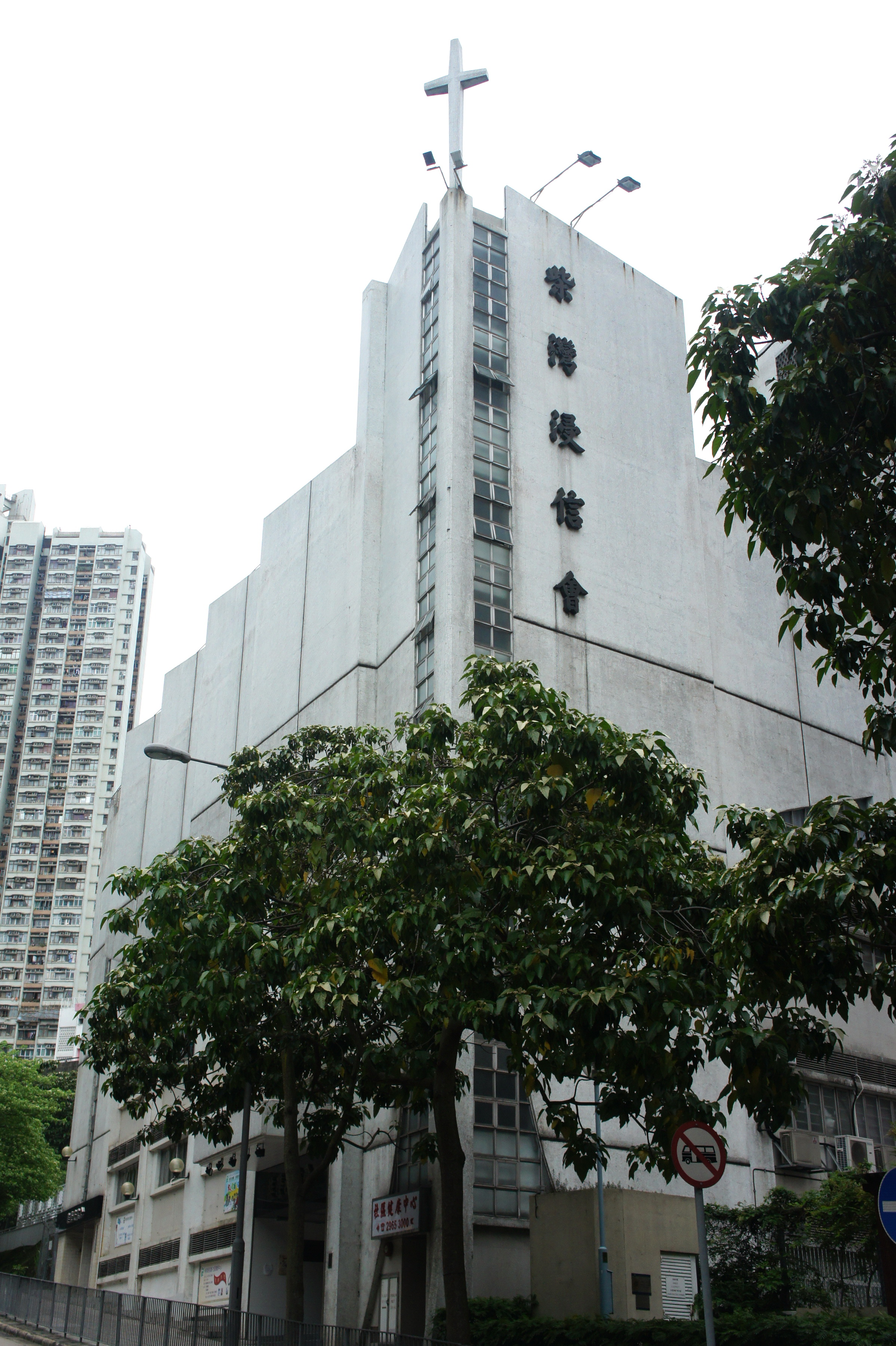 Chai Wan Baptist Church, Hong Kong. The road in the foreground is Fei Tsui Road.